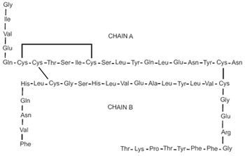 Insulina Structural Formula